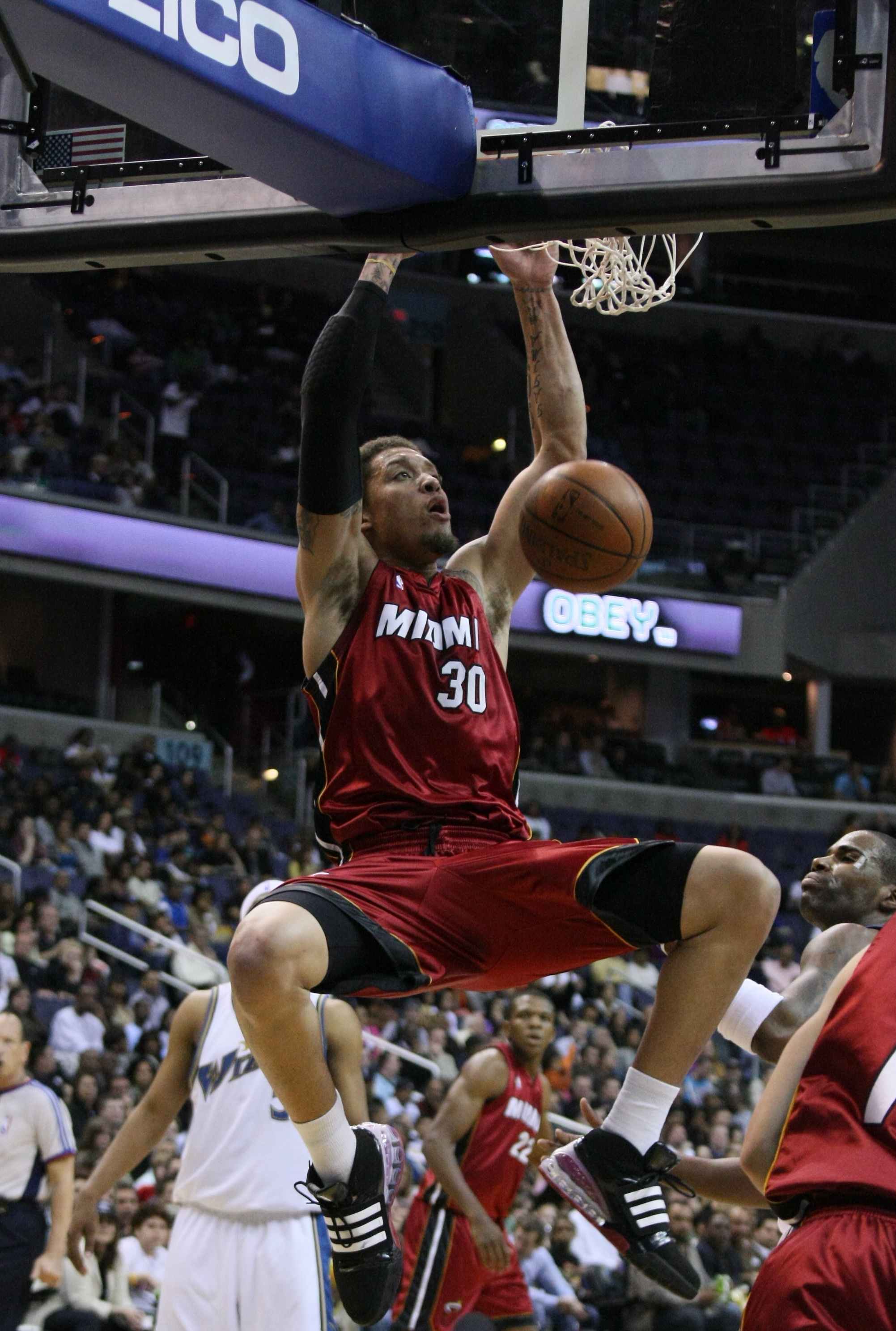 Michael Beasley playing with the Miami Heat